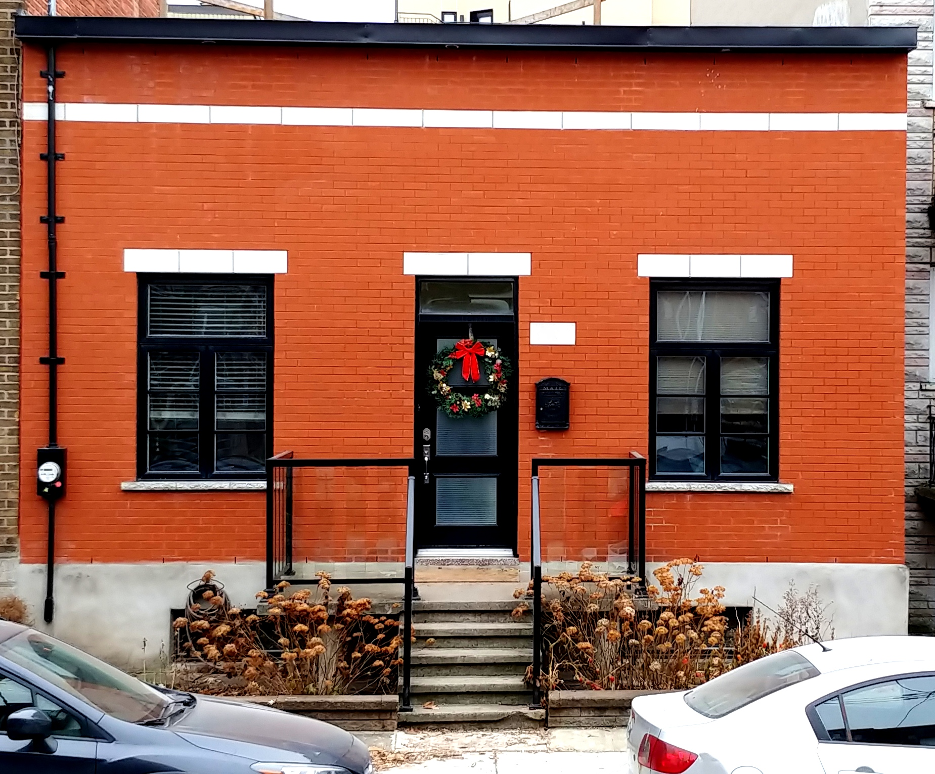 Shoebox House on Saint-Dominique Street in Montreal